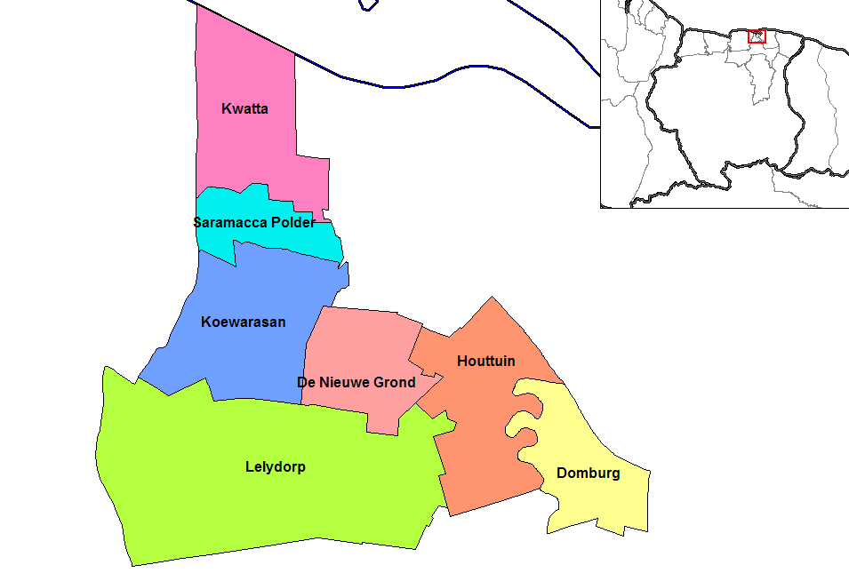 Map of the resorts of the Wanica district in Suriname. Created by Rarelibra 22:51, 27 December 2006 (UTC) for public domain use, using MapInfo Professional v8.5 and various mapping resources. Rarelibra 22:51, 27 December 2006 (UTC)